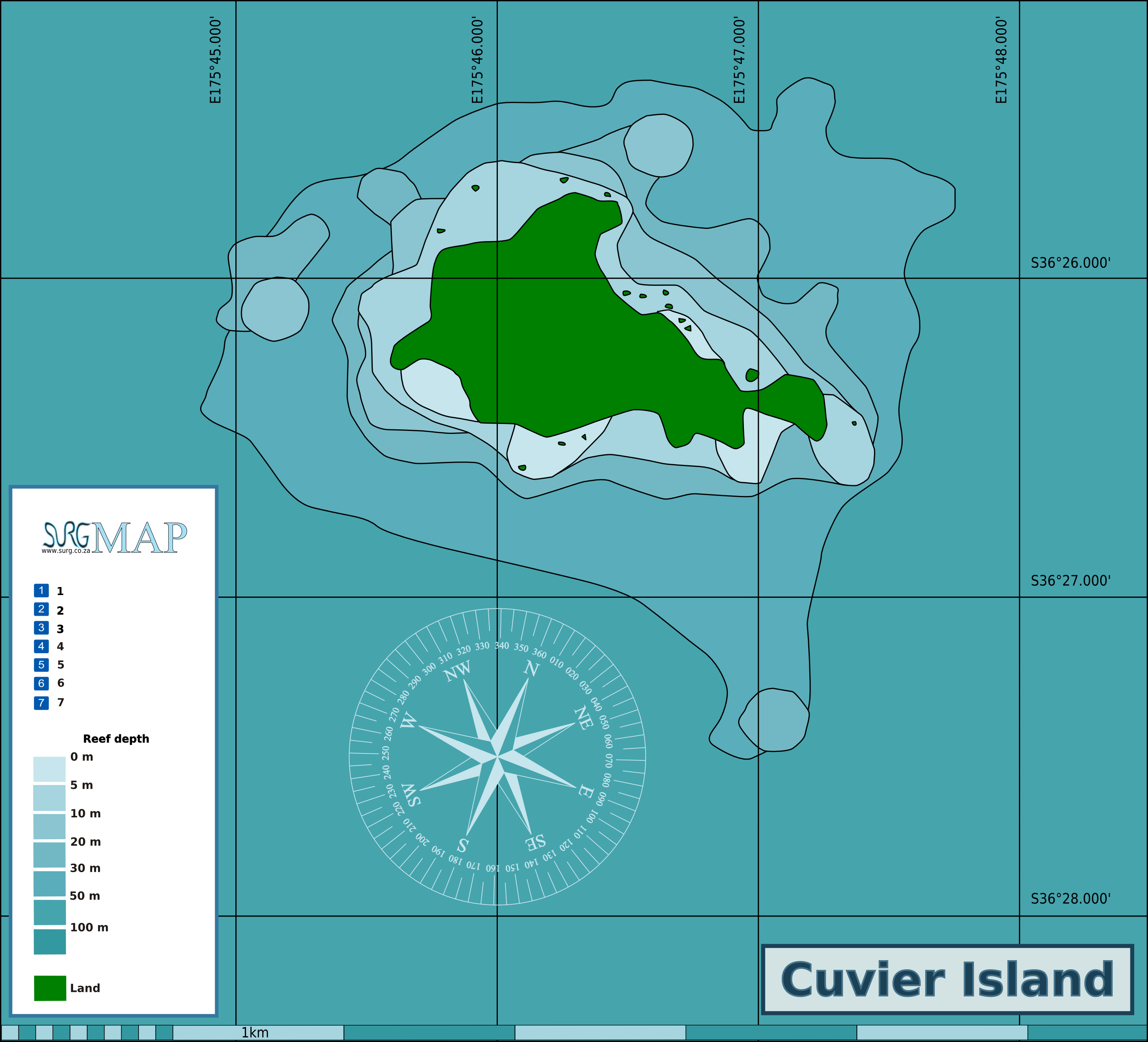 Map showing the position and dive sites at Cuvier Island, New Zealand